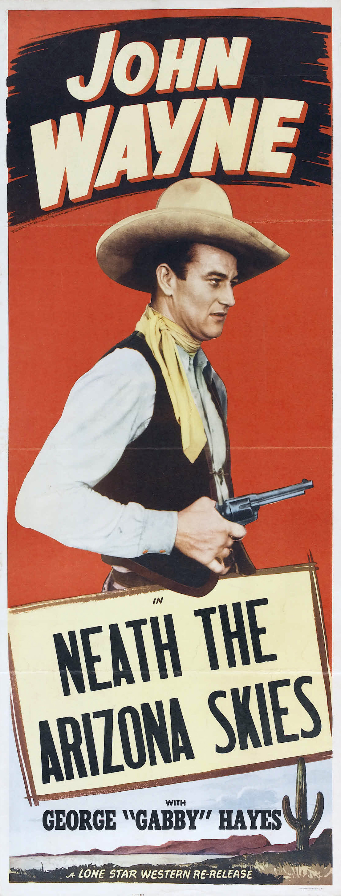 Film poster for 1934 John Wayne vehicle Neath the Arizona Skies